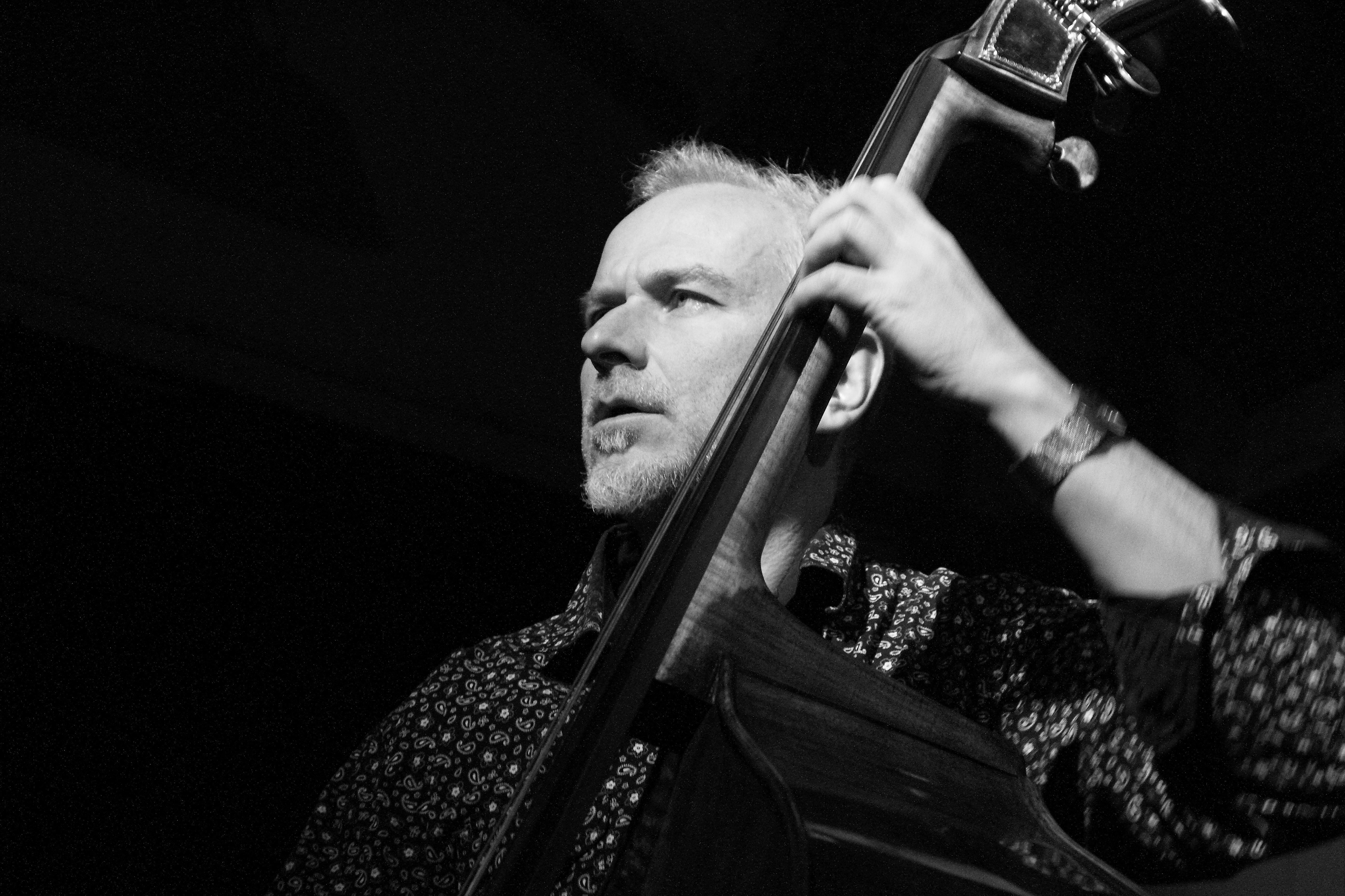 The Escalators (Ken Vandermark, Klaus Kugel & Mark Tokar) in concert at Club W71, 2018.